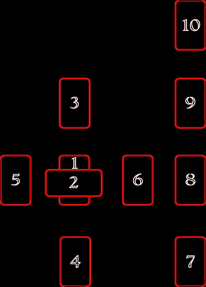 Celtic cross